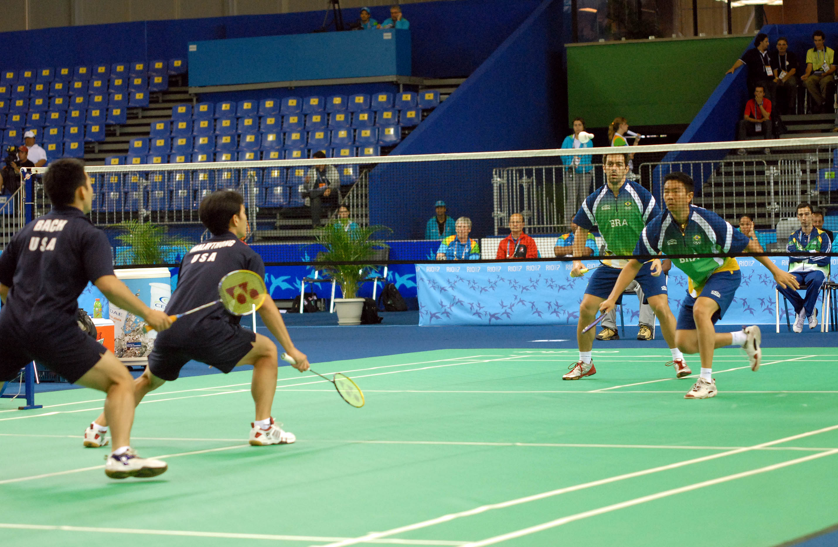 Badminton - Men's doubles competition - BRA vs. USA - Rio 2007